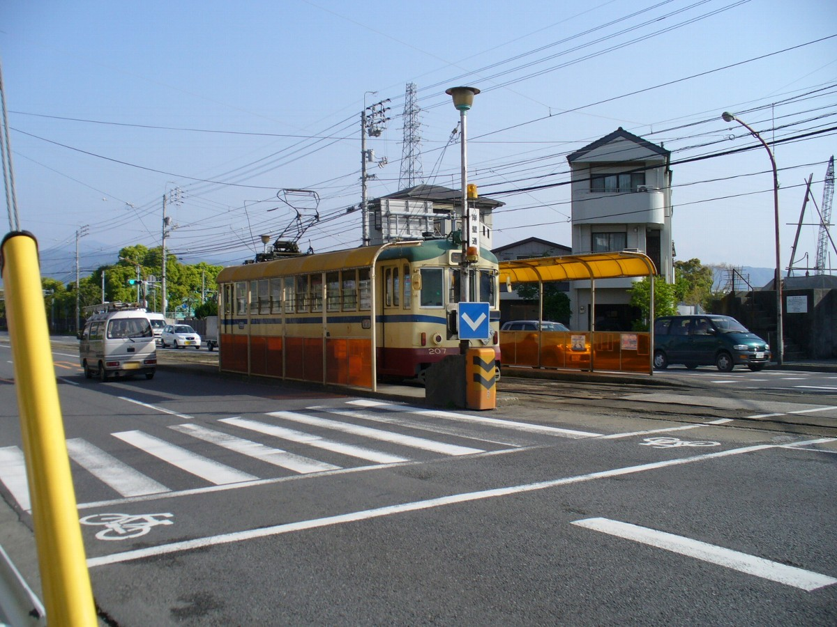 Gampekidori tramstop of Tosa electric railway. The tramstop was renamed to Sambashishakomae in 2007.